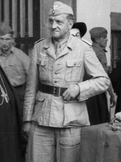 Montecassino Abbey, Italy, 1943. German Oberstleutnant (Lieutenant Colonel) Julius Schlegel (a roman catholic from Wien), Division "Hermann Göring" ishop Gregorio Vito Diamare, Abbot of Montecassino Abbey (left, with Pectoral Cross) supervises the packing of artworks from the Abbey about to be transferred to more secure placessupervises the packing of artworks from the Abbey about to be transferred to more secure places by the German Division "Hermann Göring".